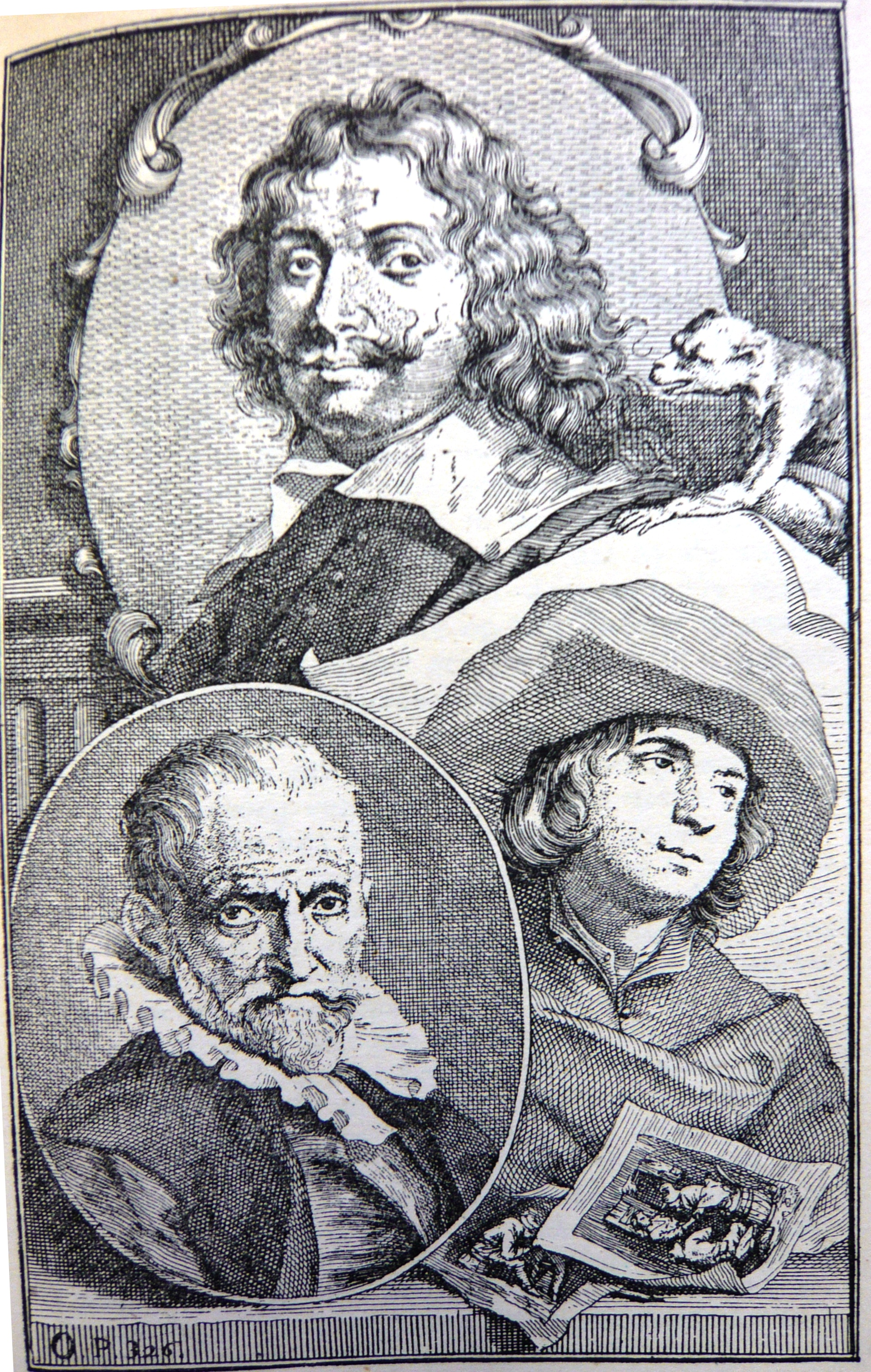 Schouburg Part 1 Plate O with Adriaen Brouwer, Juriaan Ovens and Cornelis Bega, Page 326 of Part 1 of Arnold Houbraken's Schouburg from 1718